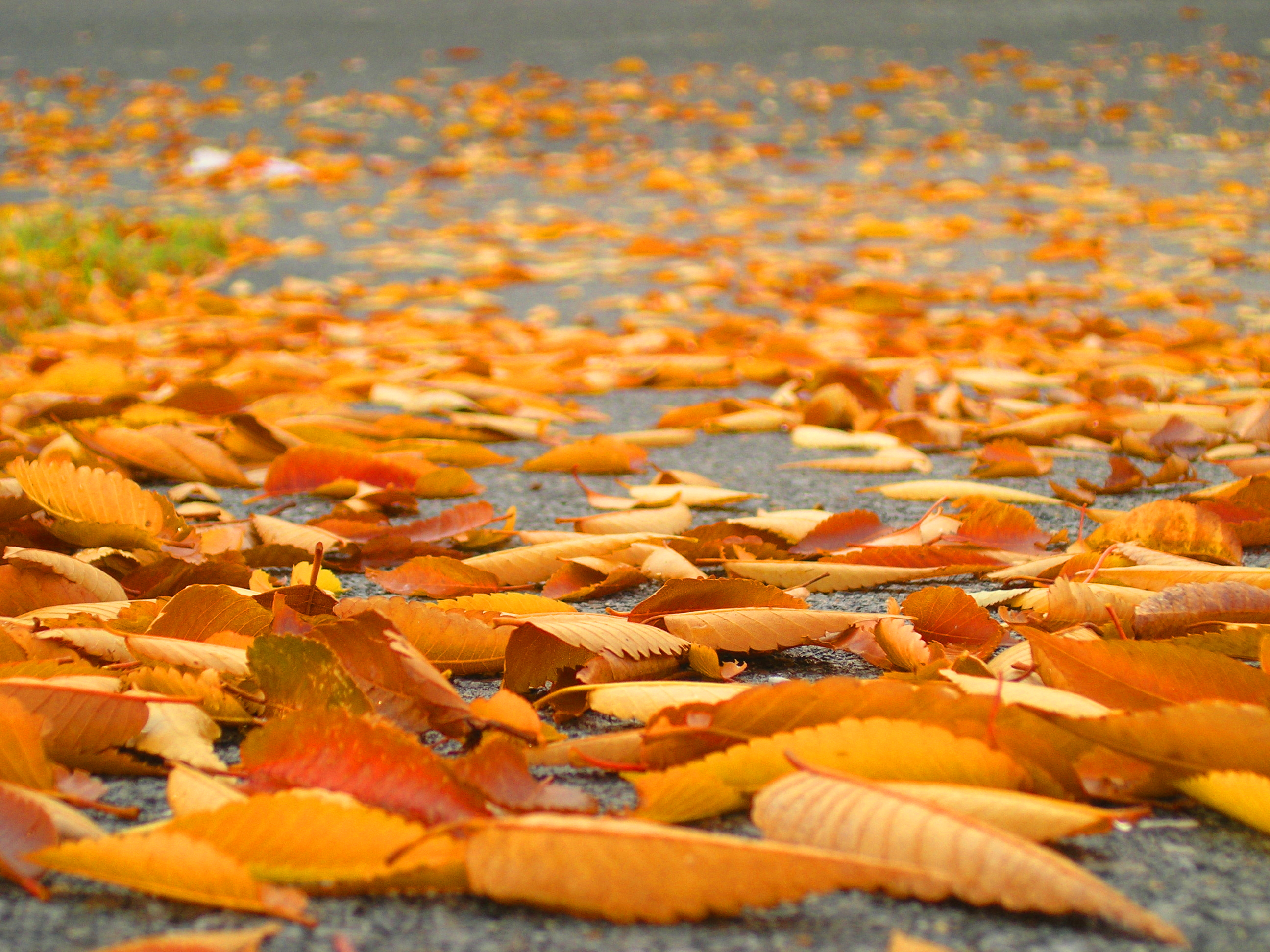 Autumn leaves fallen on a driveway in Maryland.